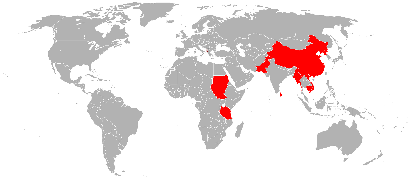 Operators of the Type 63 light tank. Current operators in red, former operators in dark red.